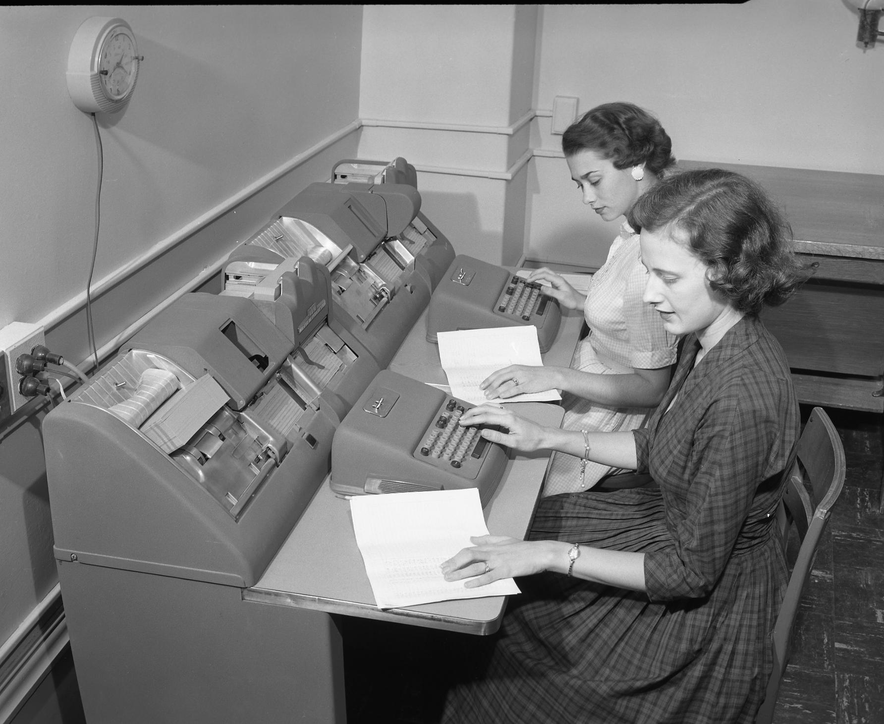 Two women entering data onto punched cards at Texas A&M in the 1950s. The woman at the right is seated at an IBM 026 keypunch machine. The woman at left is at an IBM 056 Card Verifier. Her job would be to re-enter the data and the verifier machine would check that it matched the data punched onto the cards. See File:Keypunching at Texas A&M2.jpg for a better view of each machine's label. The woman on the right also appears with an IBM 650 computer in File:IBM 650 with front open.jpg, from the same set, suggesting the original photo was taken in the mid to late 1950s.